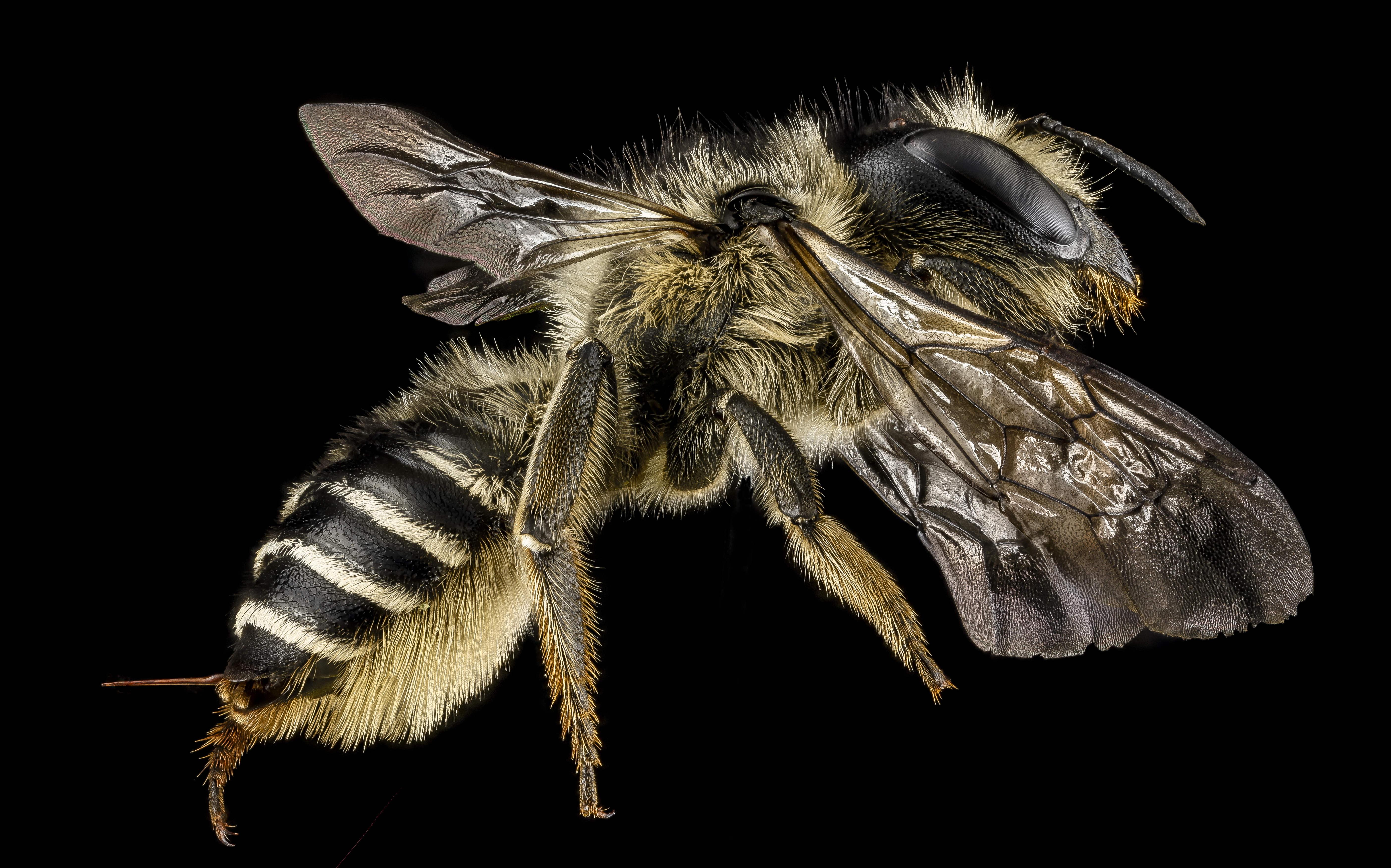 Bee Megachile inermis